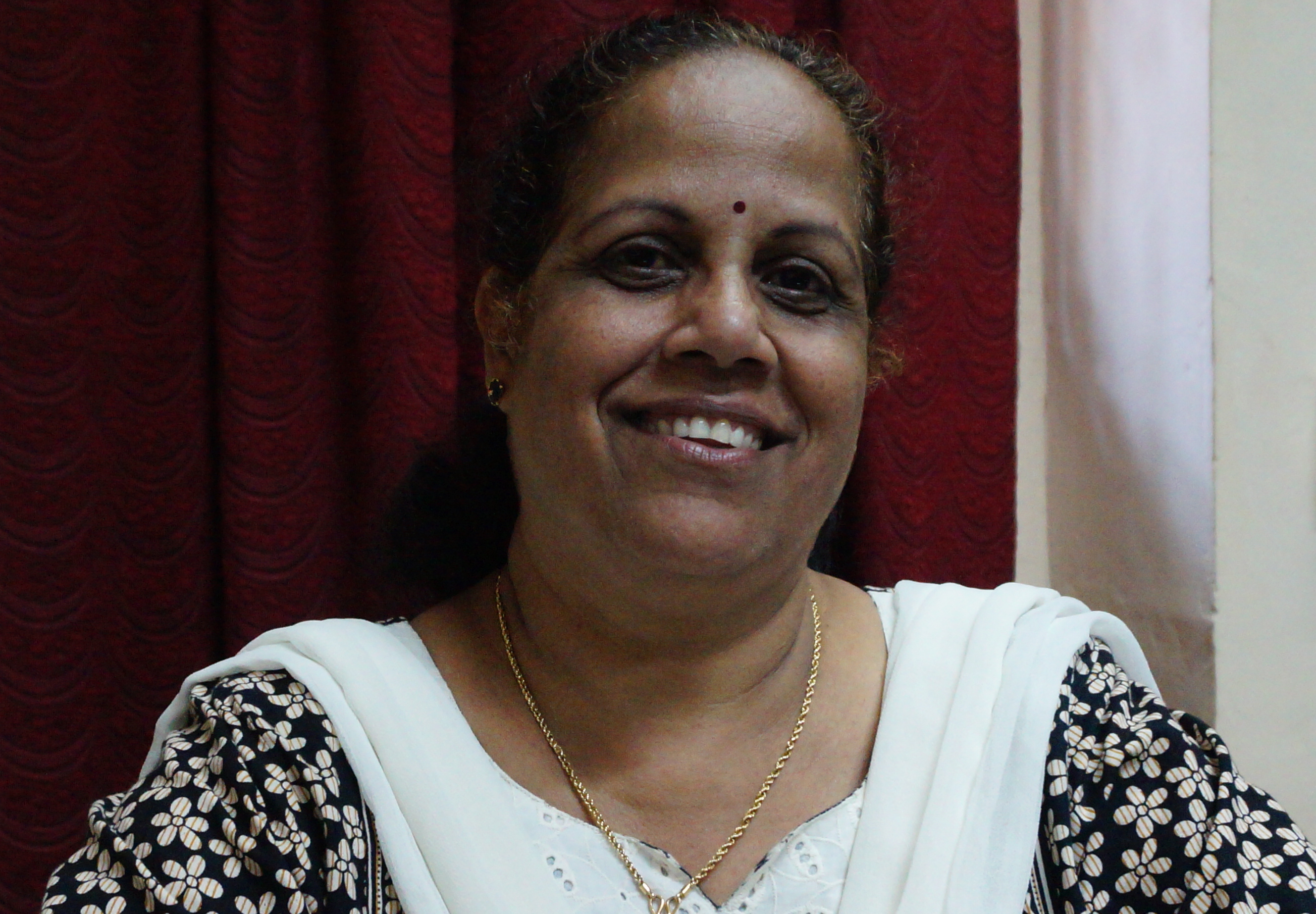 Konkani writer and folklorist. Into plays, children's literature, short stories.